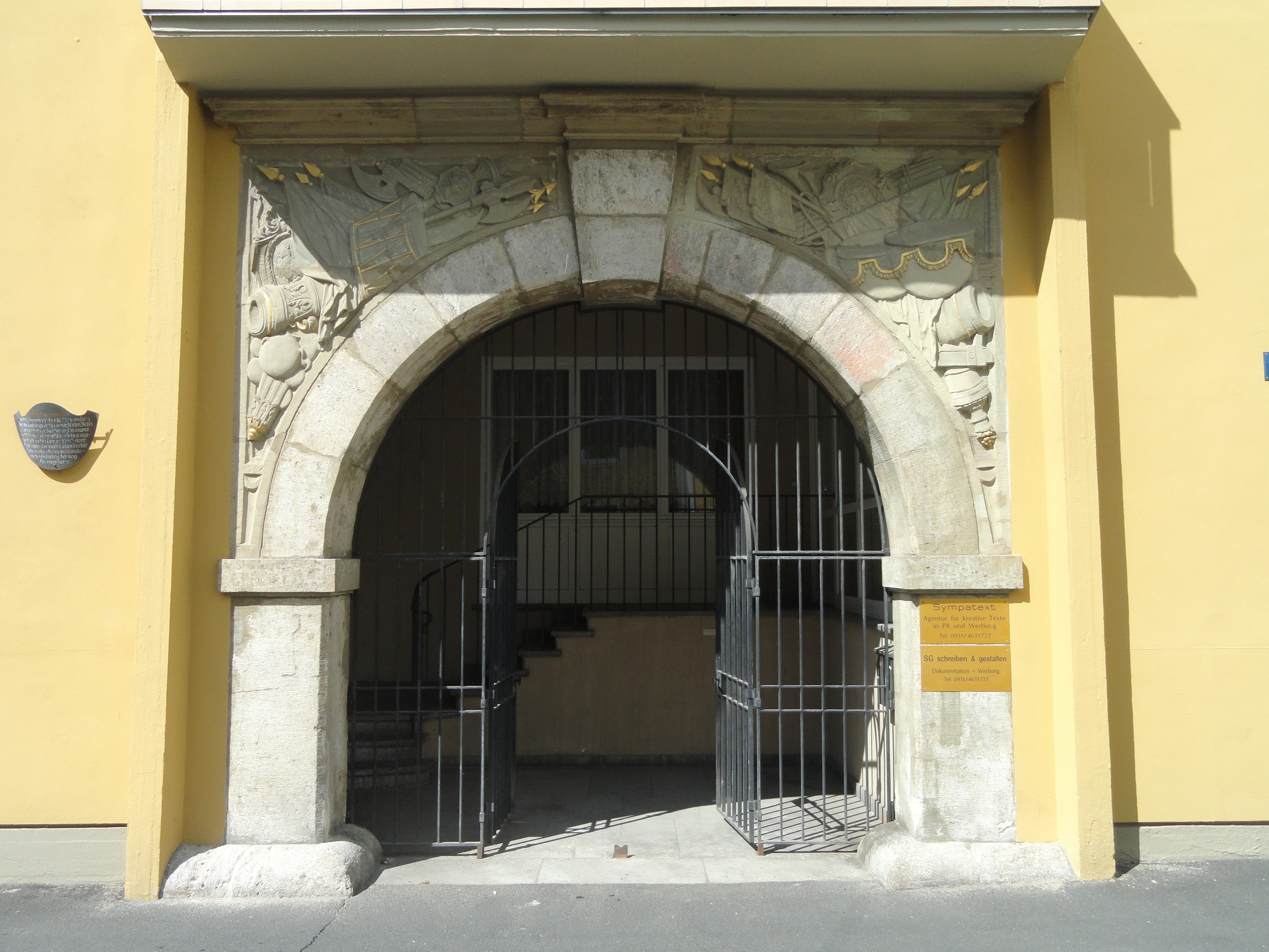 Balthasar Neumann Haus, Würzburg, Germany. Once home of architect Balthasar Neumann.